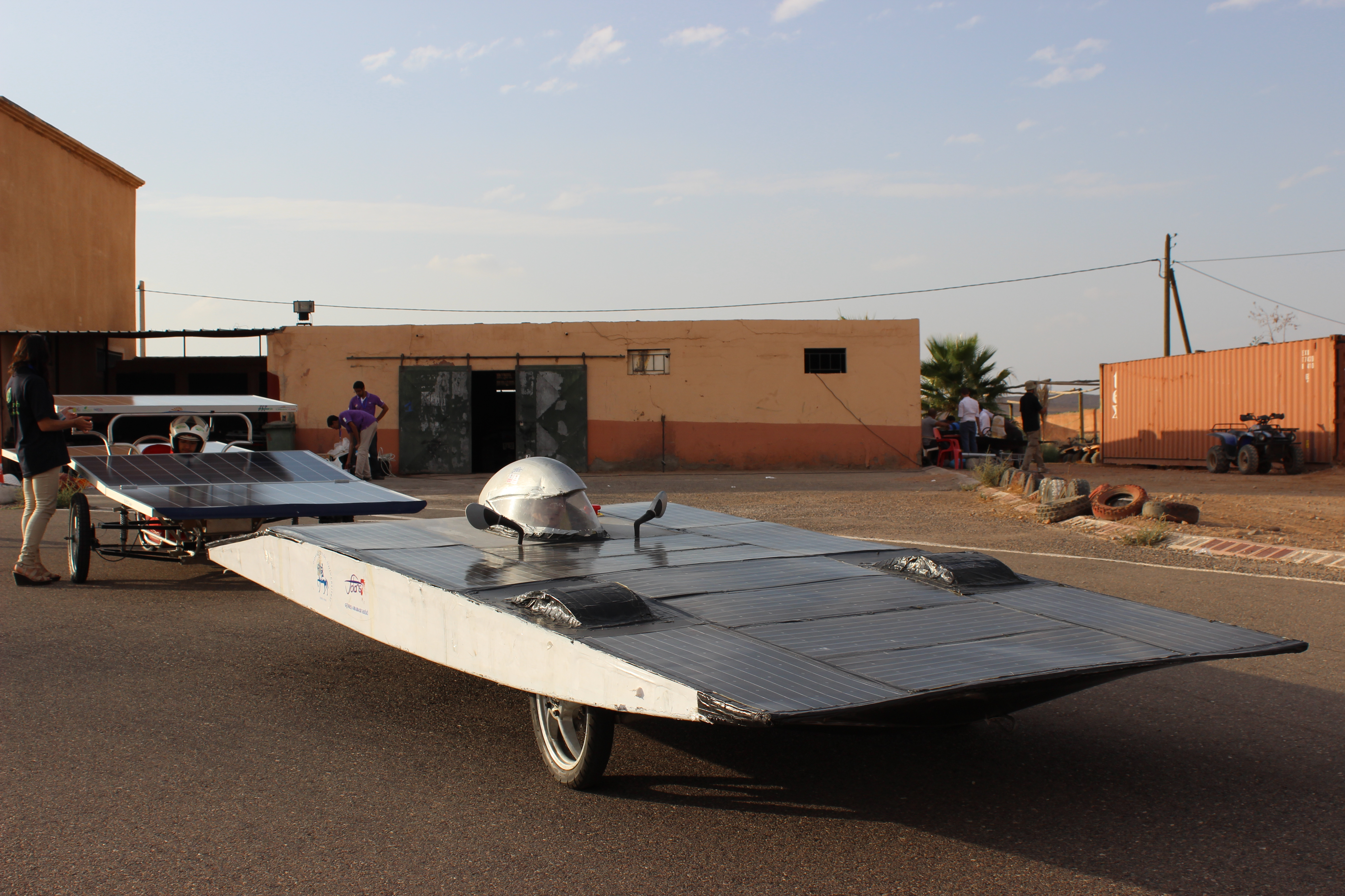 Solaris Solar Car team, S2 solar vehicle.